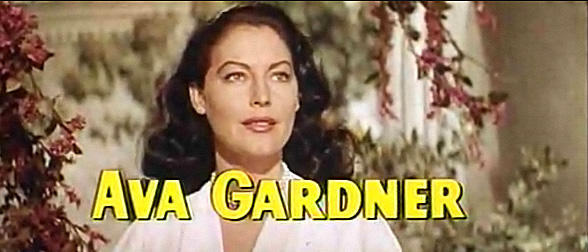 Cropped screenshot of Ava Gardner from the trailer for the film Bhowani Junction.